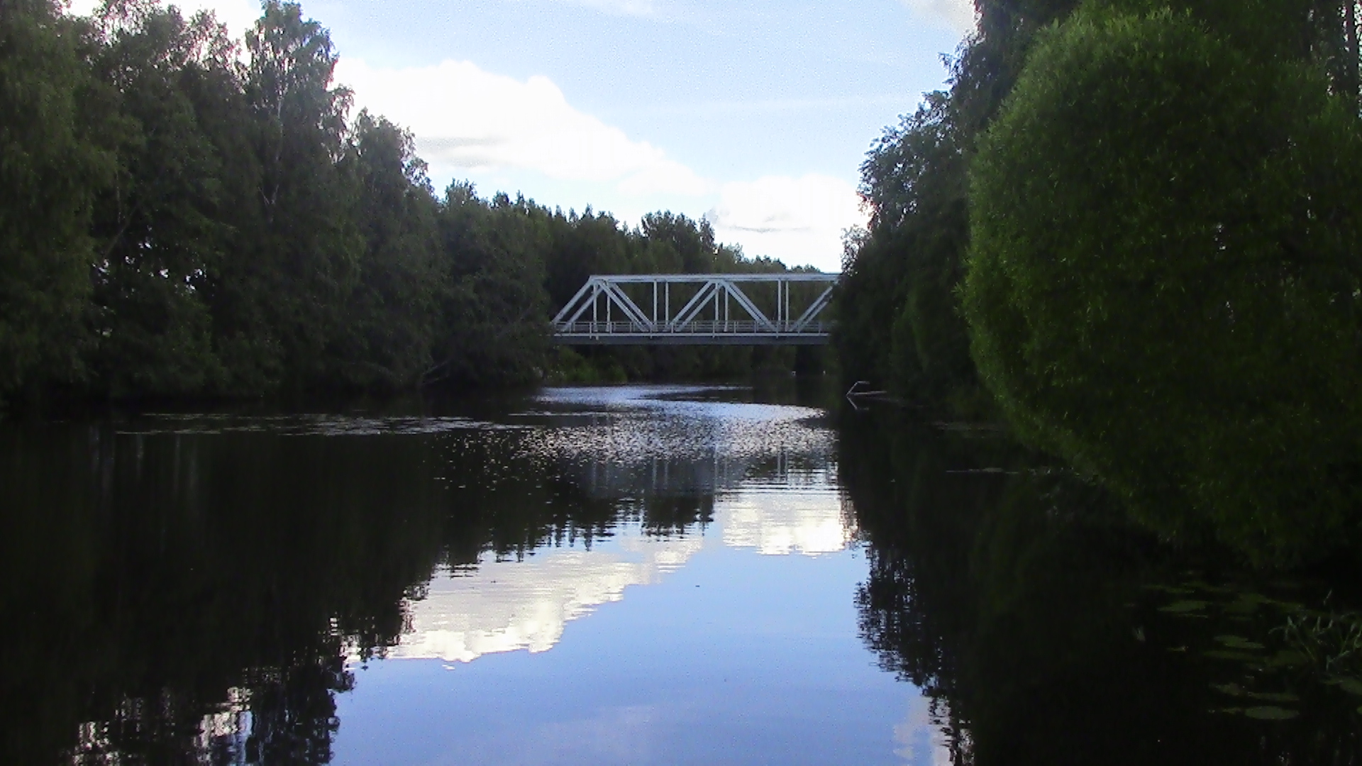 Varvourinjuopa distributary at Aittaluoto suburb in Pori.